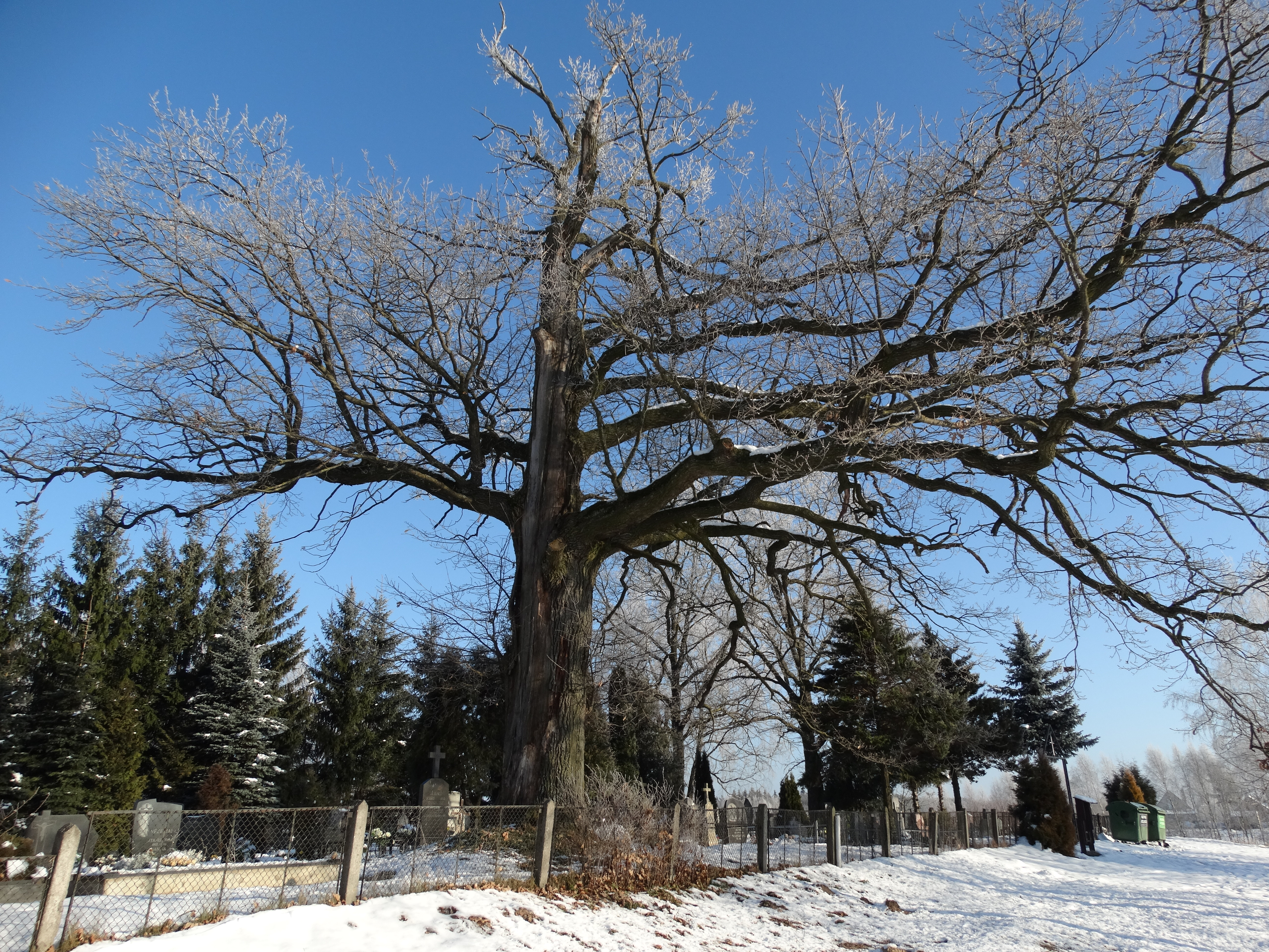 Oak tree, Streipūnai, Elektrėnai Municipality, Lithuania